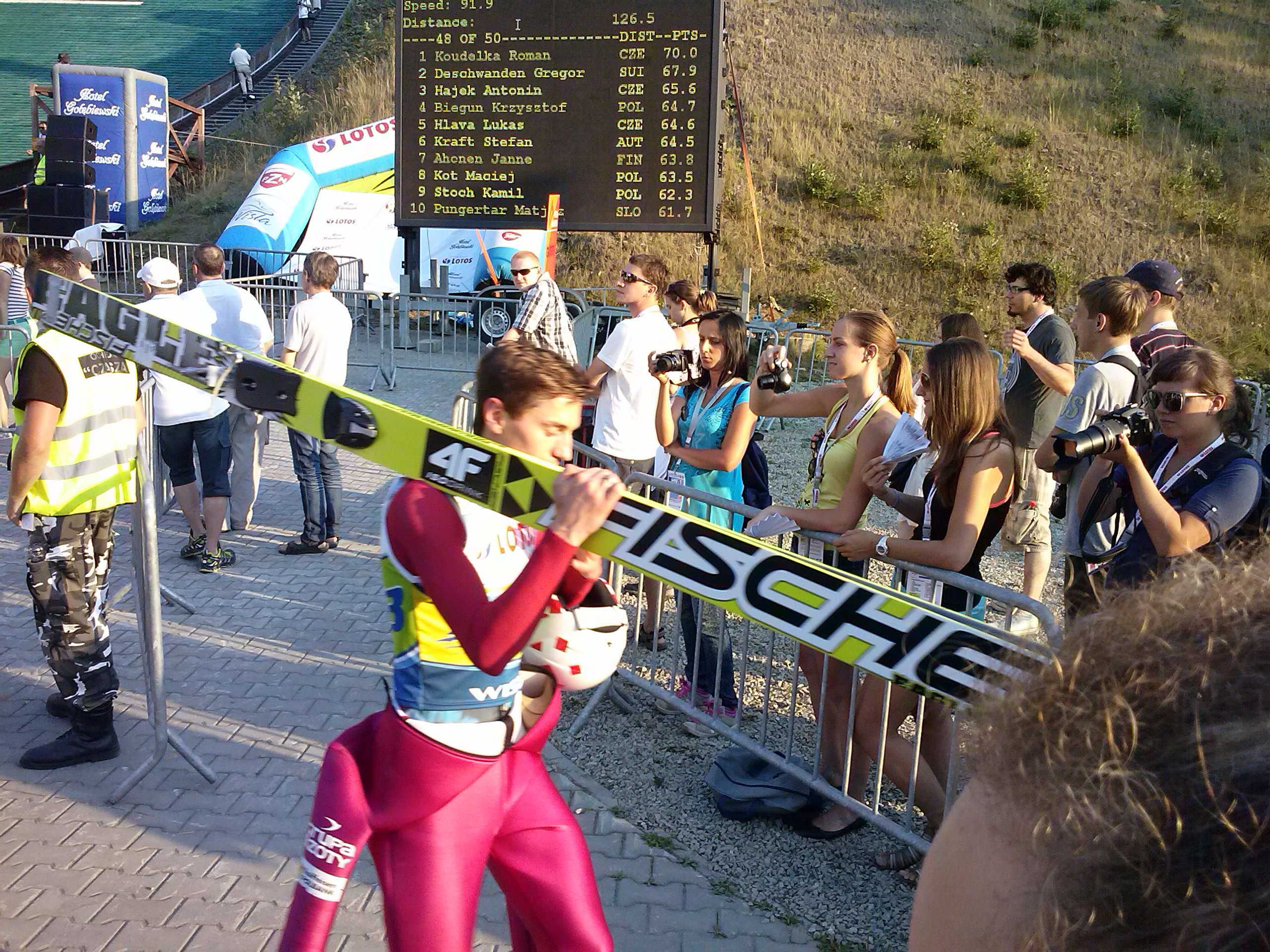 Kamil Stoch - polish ski jumper during FIS Summer Grand Prix 2013 in Wisła.